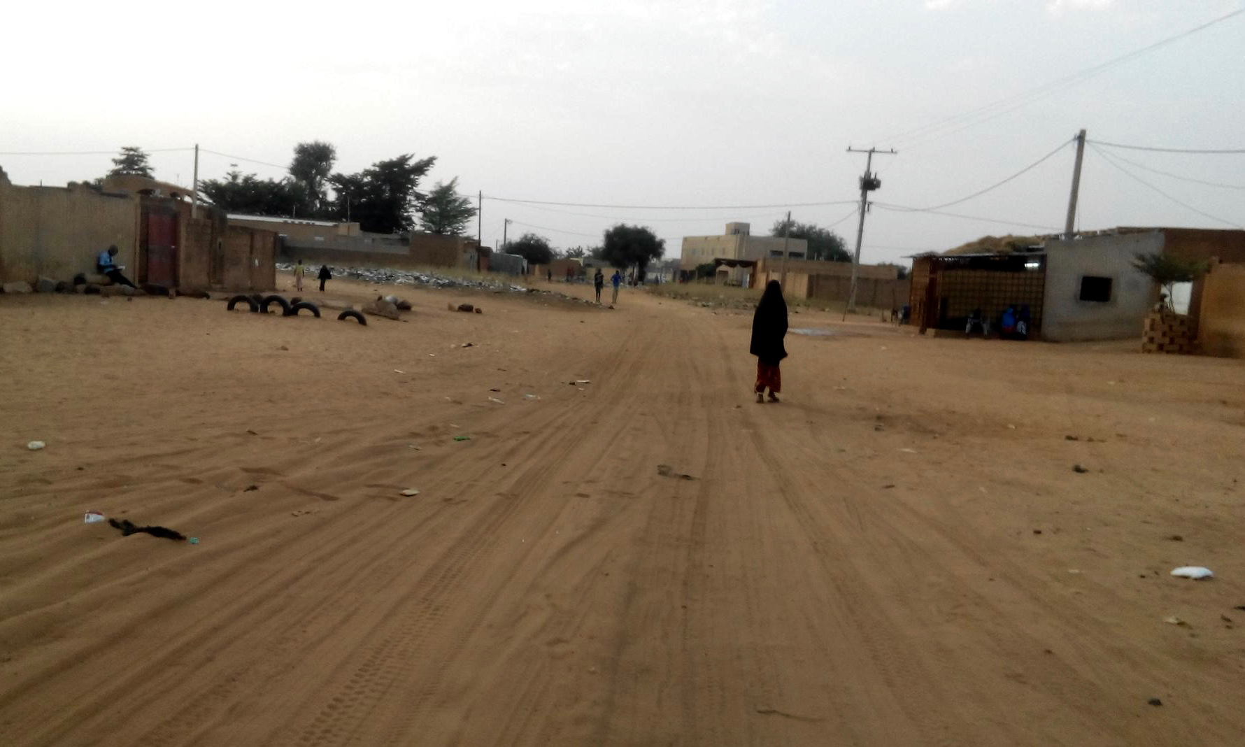 A street in Losso Goungou, Niamey.